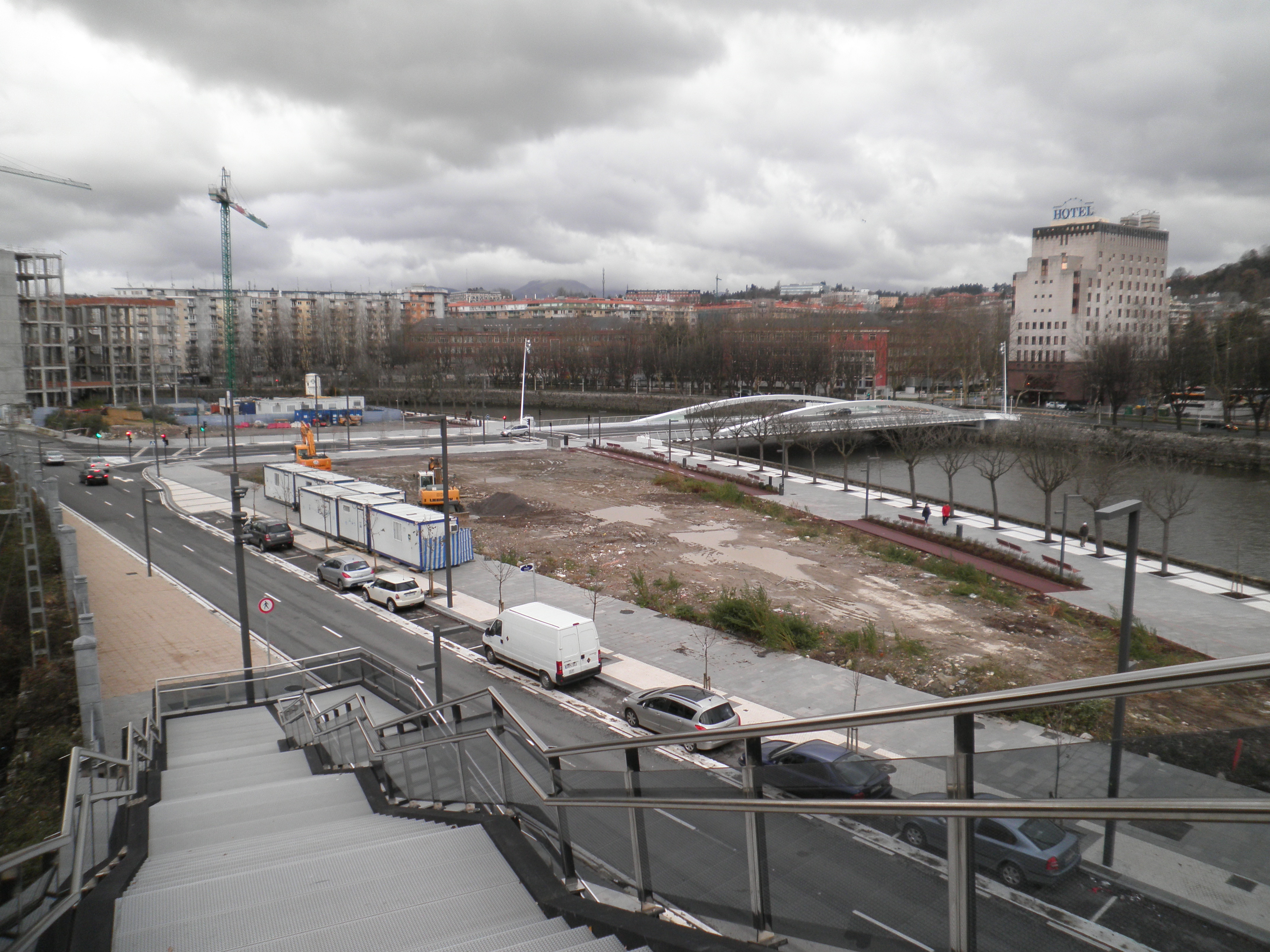 Agirre Lehendakaria bridge, Donostia.